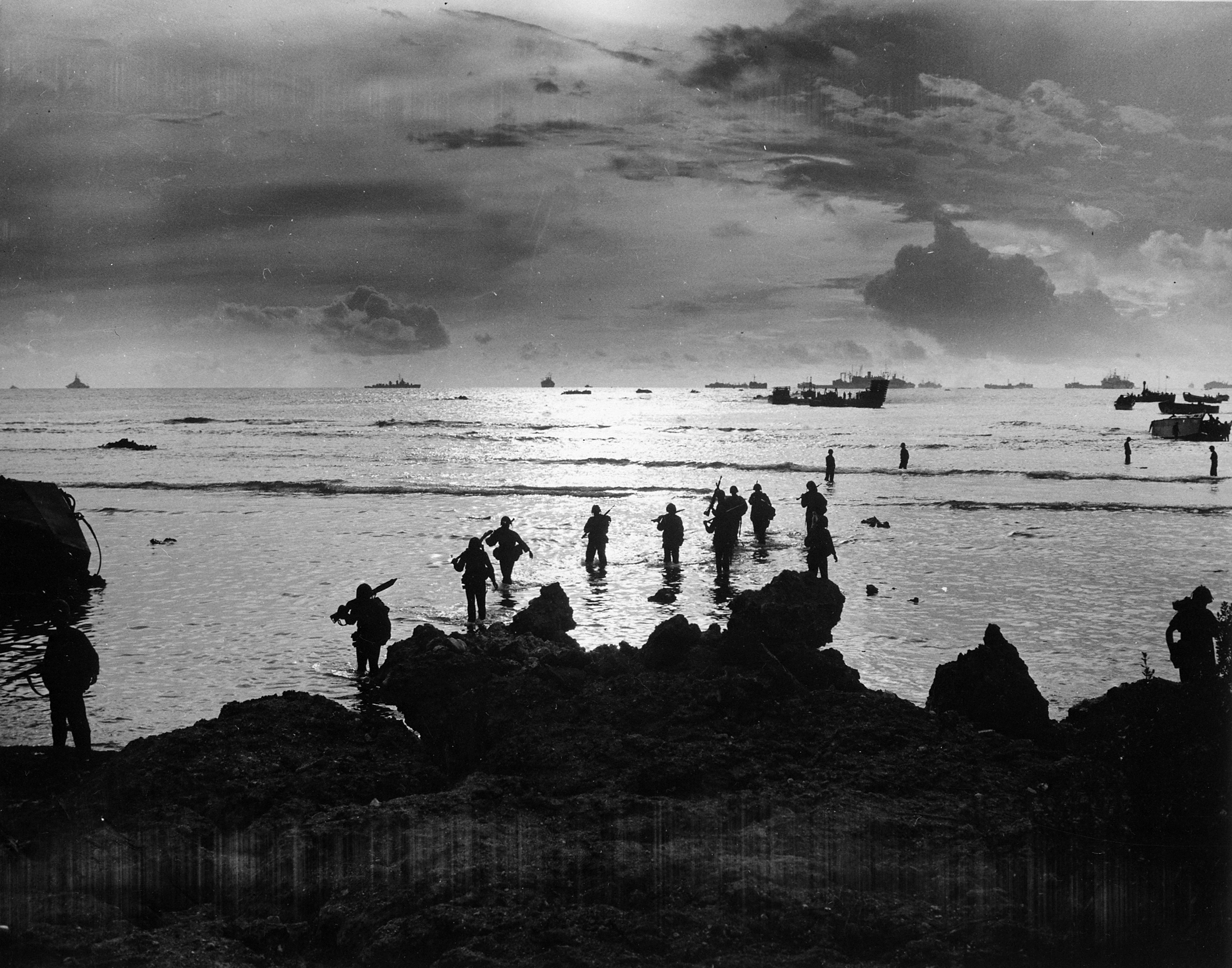 From Coast Guard-manned landing craft, American invaders wade through a golden, shallow surf to hit the beach of Tinian Island. Units of a task force stand on the horizon-Navy warships, transports and LSTs.